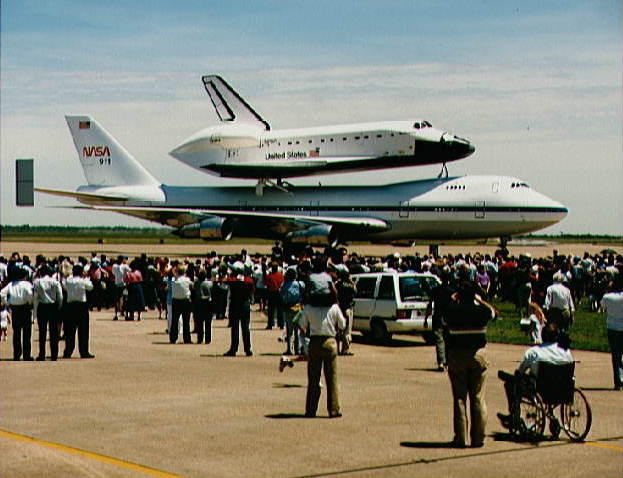 Endeavour, Orbiter Vehicle (OV) 105, atop a Shuttle Carrier Aircraft (SCA) NASA 911, a modified Boeing 747, is parked on an Ellington Field runway during a stopover on its way to the Kennedy Space Center (KSC). A crowd gathers around the massive aircraft carrying the newest addition to the Space Shuttle fleet. This view is a good profile of SCA/OV-105 and shows the orbiter/aircraft attach points. The spacecraft and aircraft-tandem left Houston later on this day and headed for another stop in Mississippi before landing in Florida on 05-07-91.